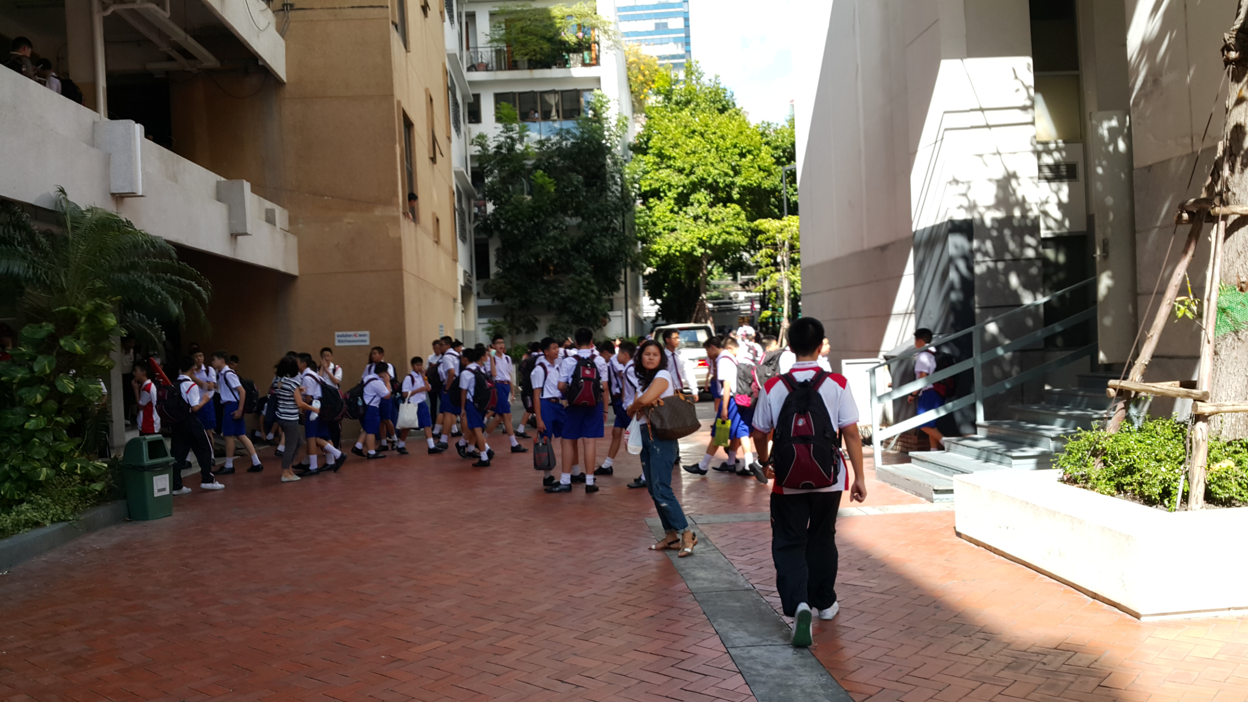 Assumptiom College (Bangkok) immidiately stops after a blast at Sathorn pier, a pier near by the school, on 18 August 2015, no fatality was reported. The image shows students evacuting out off the school and parents coming to bring their children home.